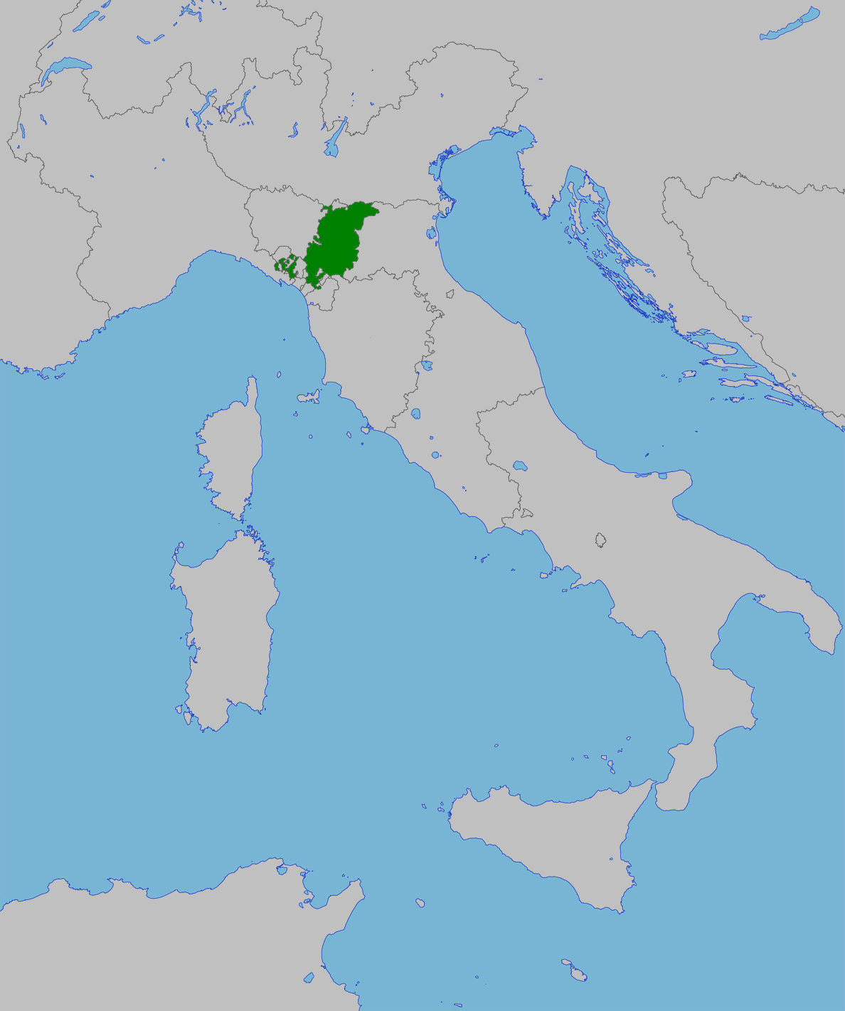 Location of the Duchy of Modena and Reggio in 1815 Italy